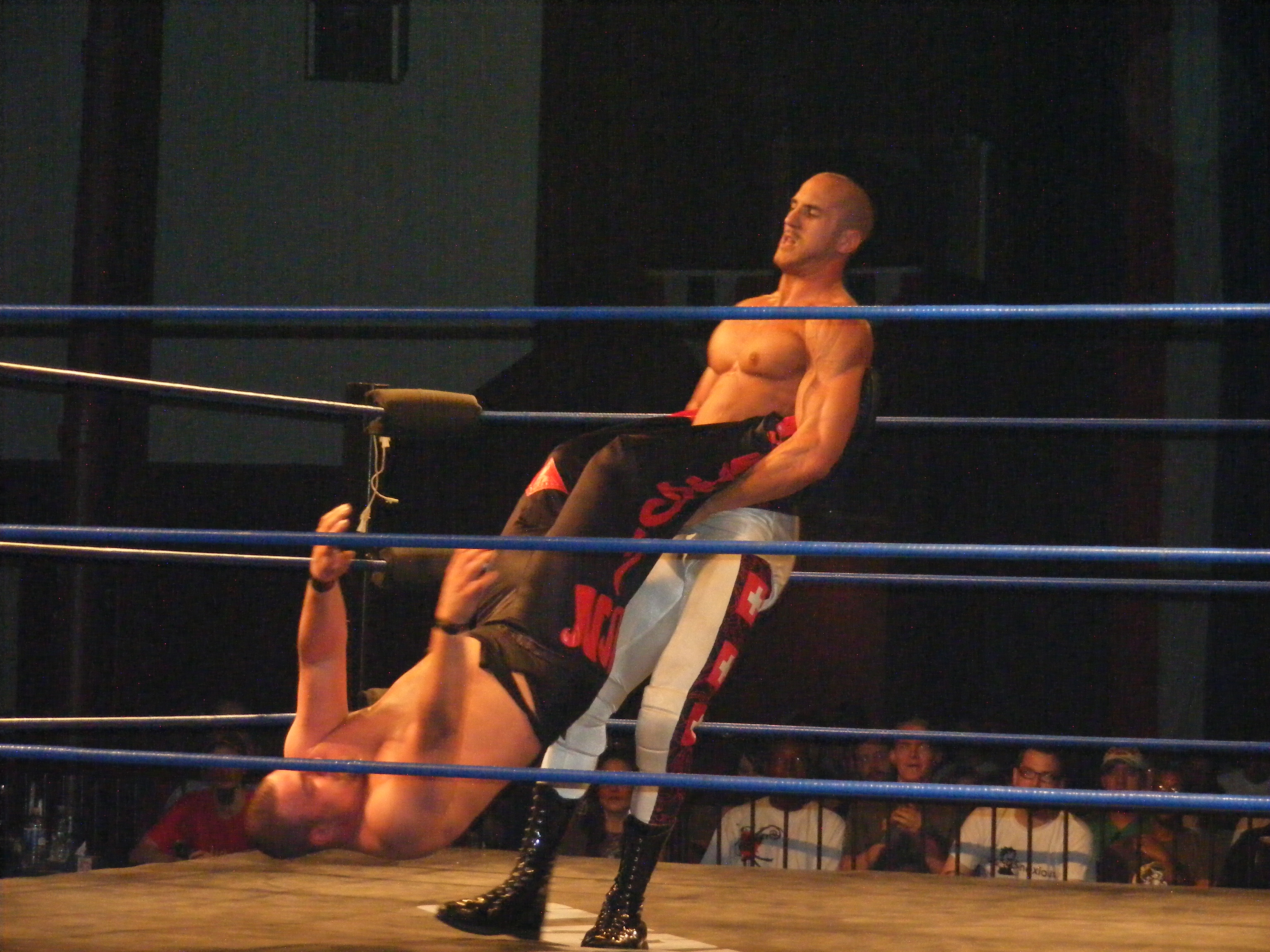 Claudio Castagnoli performing a "Giant Swing" at a Chikara show on May 24, 2009 in Philidelphia.